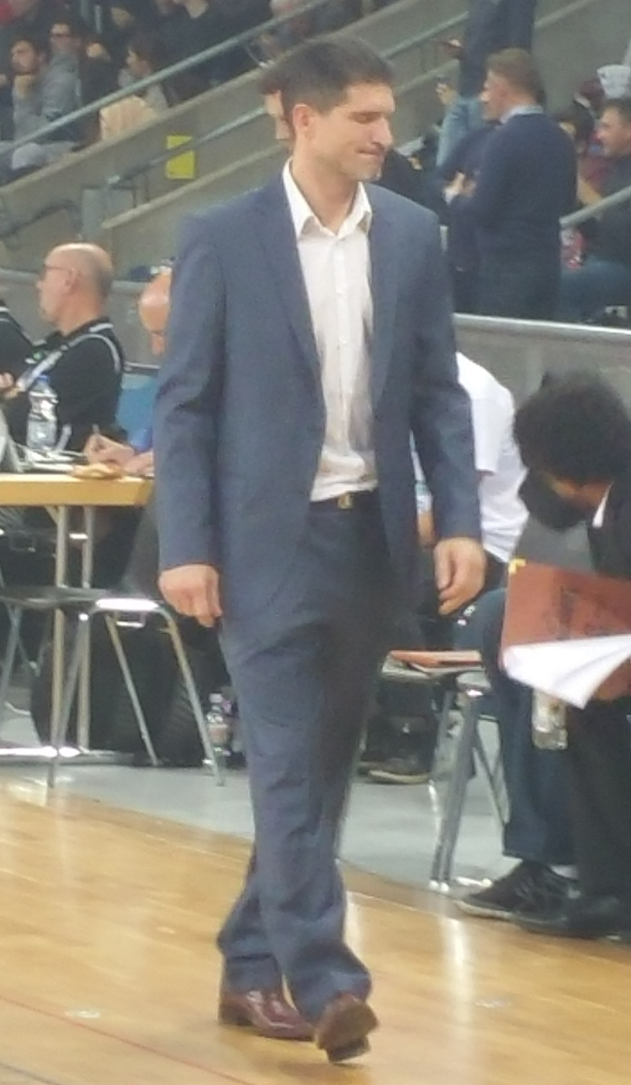 taken during professional basketball game in Germany